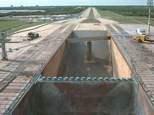 Orignal description: "The Flame Deflector shows the crawler way slabs that we will be removing and refurbishing. We will also be injecting epoxy grout thru the cracks to seal them so water and SRB residue does not leach down into the catacombs and create stalagtites. It also showsthe top of the flame deflector where we will be removing the refractory concrete and replacing it on the SRB side and the SSME side. We will also be doing a corrosion project on the underside of the flame deflector."